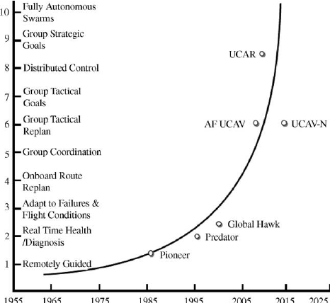 ACL trends